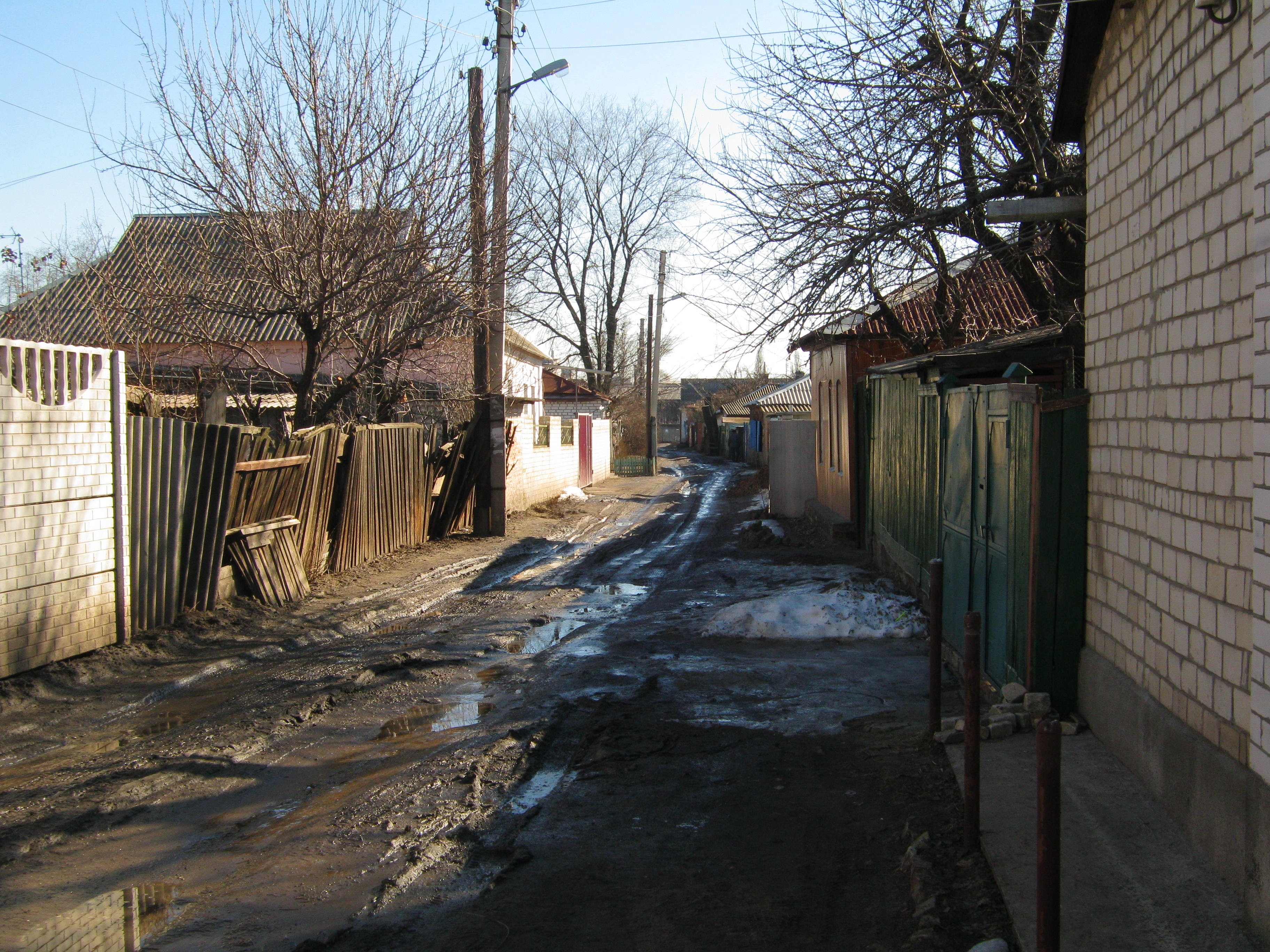 Road on lane Novikovsky